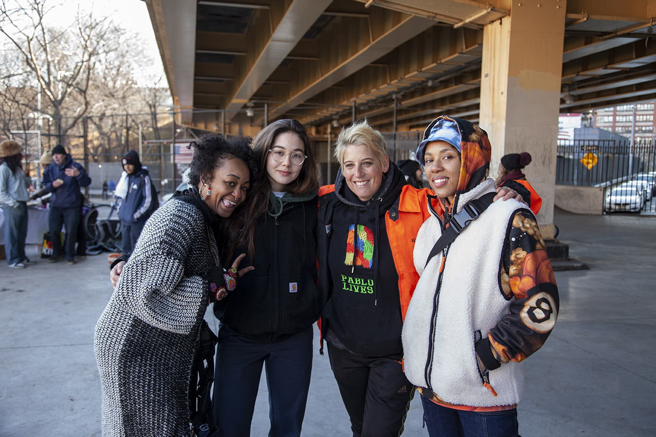 Rachelle Vinberg, Loren Michelle, and friends at FatKid Skatepark, Brooklyn, NYC, during a Brooklyn Skate Garden/NYC Skate Coalition Clean-Up - December - 2019